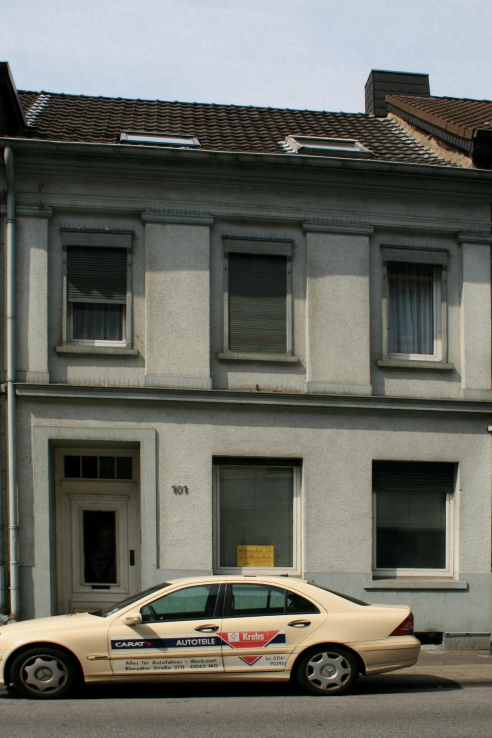 Cultural heritage monument No. F 011 in Mönchengladbach